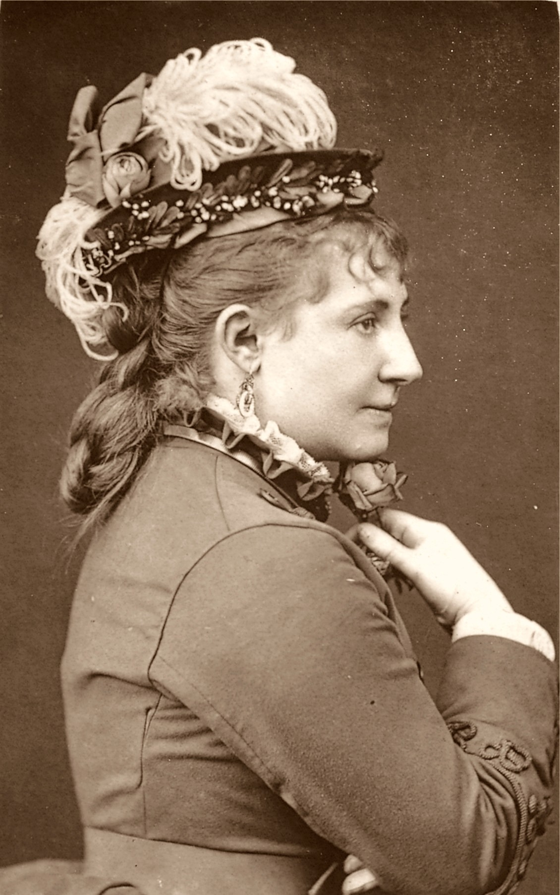 Lydia Thompson 1838-1908, English Actress and Dancer.